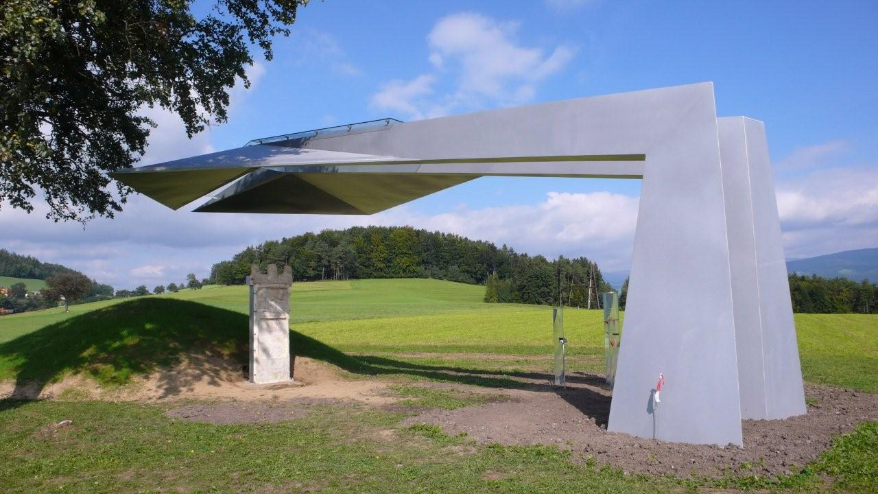 Tumulus of Lebing, Styria, Austria